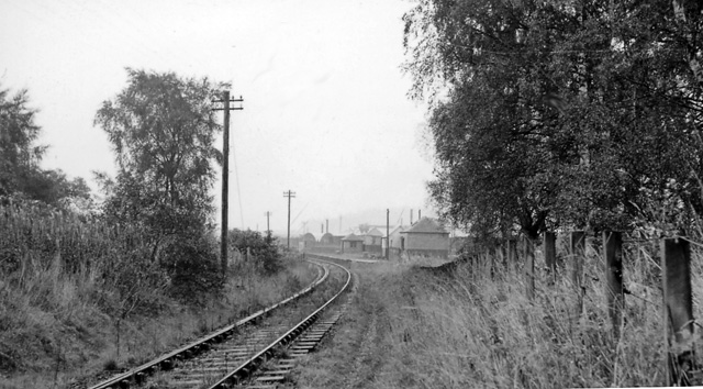 Site/Remains of Balgowan Station, near to Balgowan, Perth And Kinross, Great Britain. View eastwards, towards Perth, showing platform remains of station on Perth - Crieff branch, closed to passengers 1/10/51 but remaining open for Goods until 11/9/67.